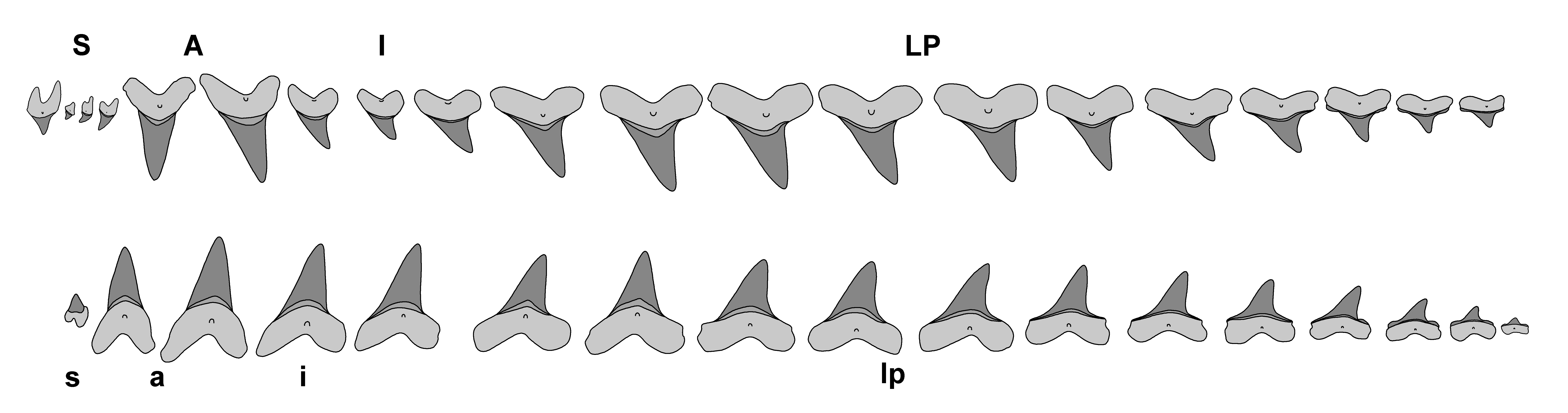 Dental reconstruction of Cretoxyrhina mantelli based on Bourdon and Everhart (2011) and Shimada (1997). Some latest lateroposterior teeth may be absent in this reconstruction. This reconstruction only represents one variation of C. mantelli dentition; other variations are known.